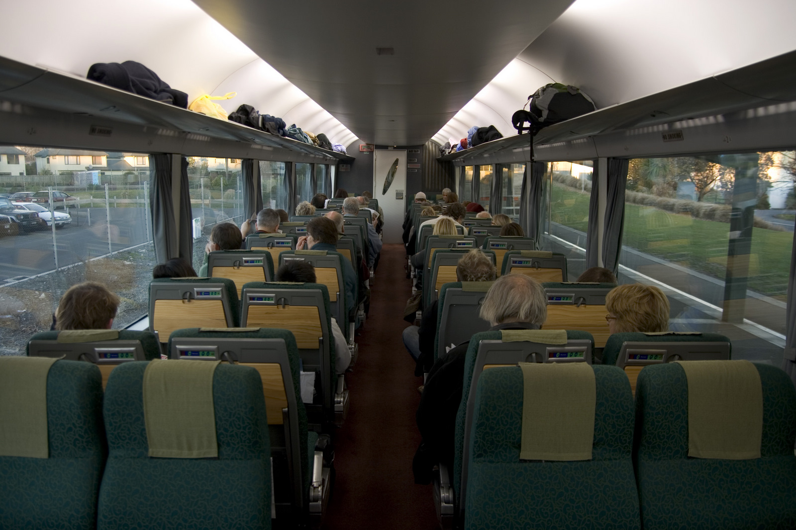 Inside TranzAlpine train carriage